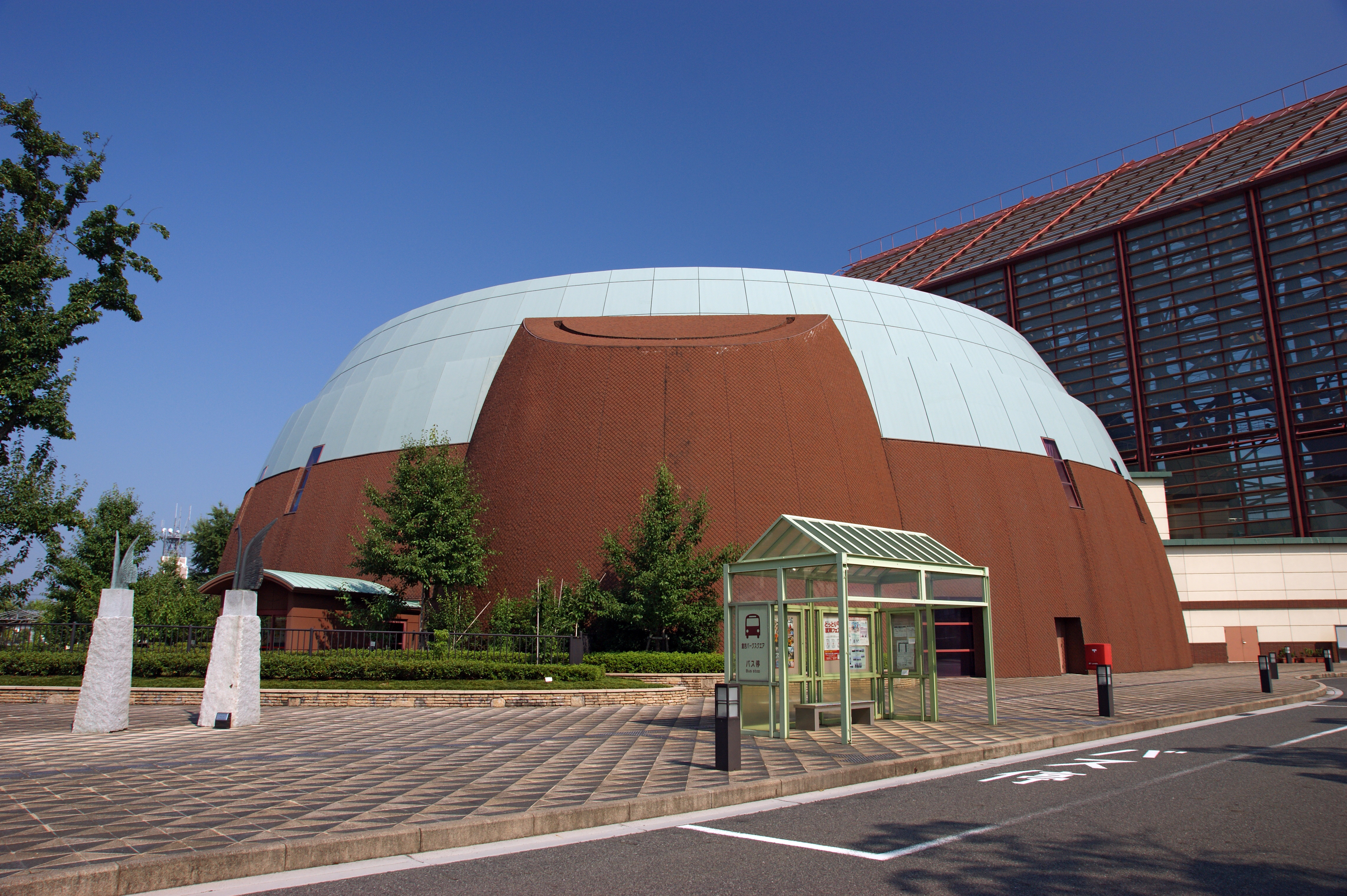 Tottori Nijisseiki Pear Museum in Kurayoshi, Tottori prefecture, Japan